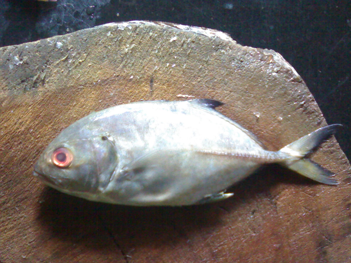 Alectis indica photographed in a fish shop in Bangalore